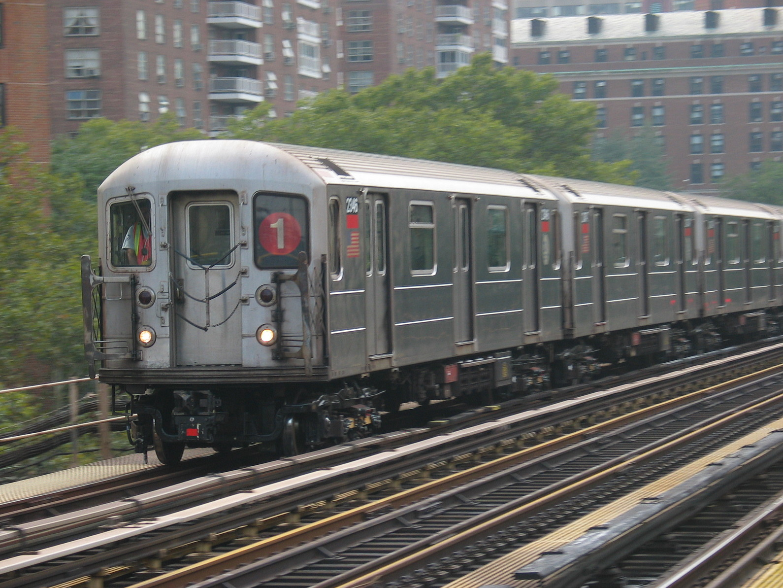 Train at 125th Street Station Harlem/Morningside Heights.